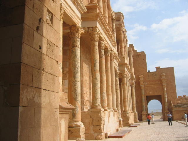 Sabratha, Libya - the Theatre (November 2006)